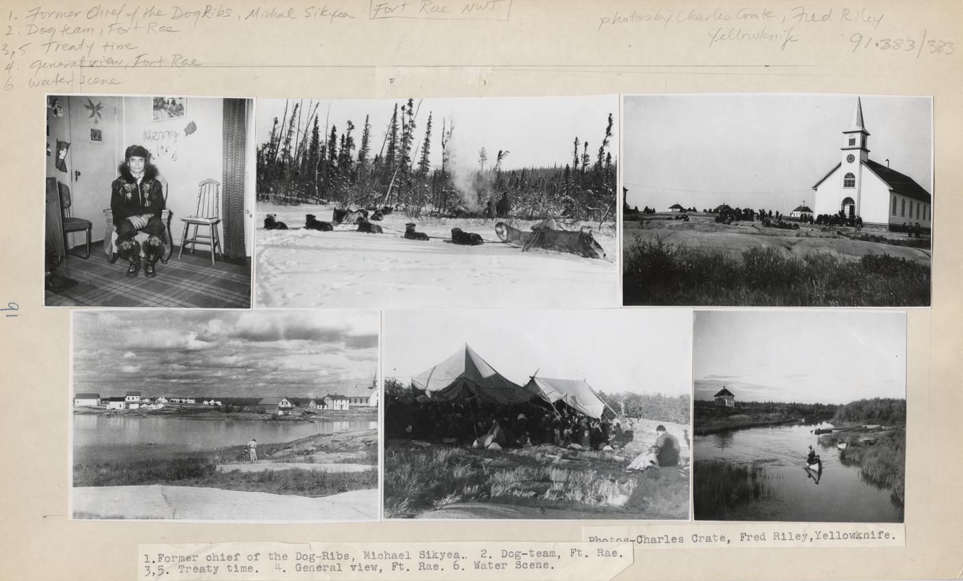 1. Former chief of the Dogribs [Tlicho], Michal Sikyea. 2. Dog team, Fort Rae, NMT. 3. Treaty time. 4. General view, Fort Rae, NWT. 5. Treaty time. 6. Water scene. From the Charles Camsell Hospital fonds, PR1991.0383/383.